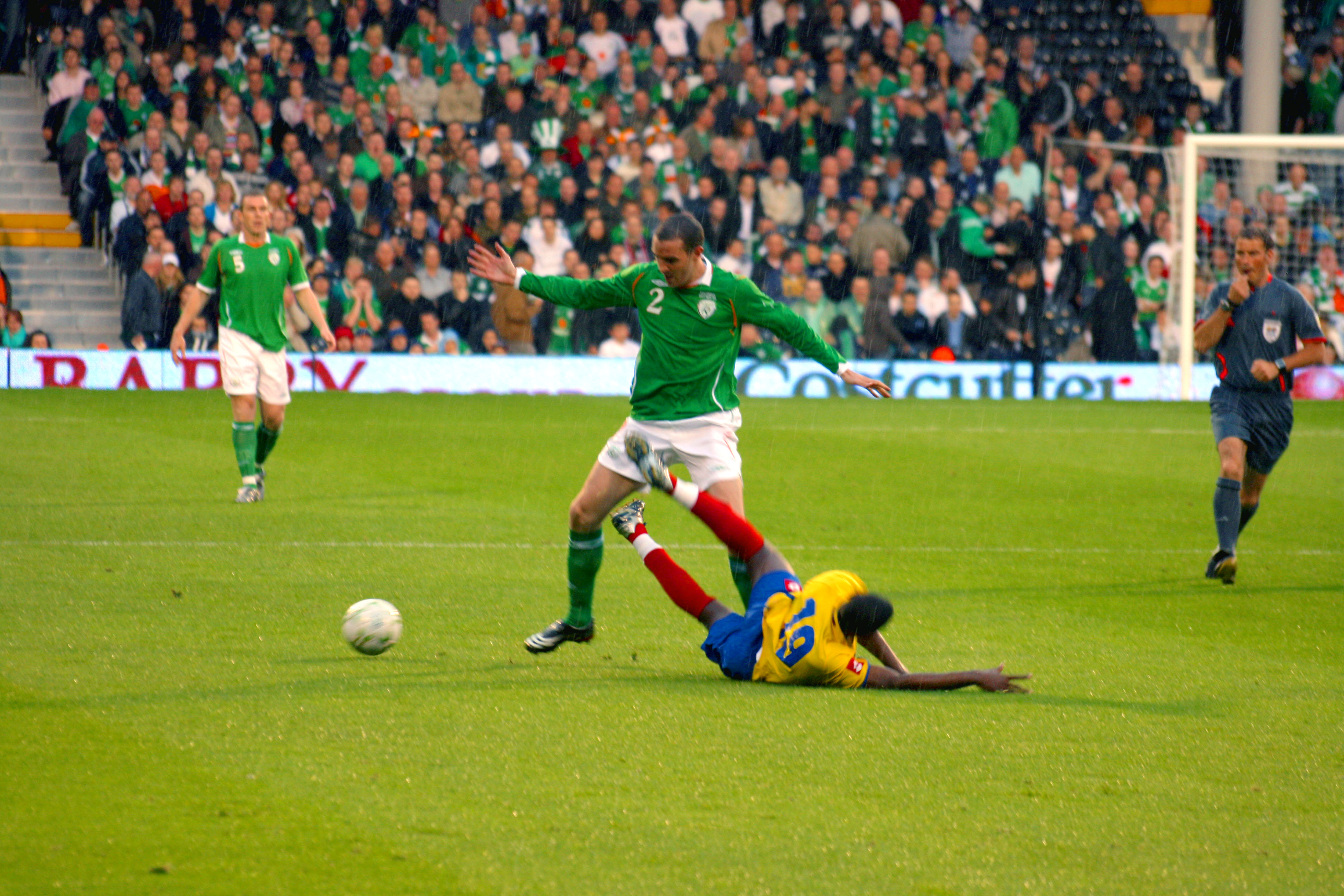 Ireland 1 v Colombia 0 - Thursday May 29th 2008.